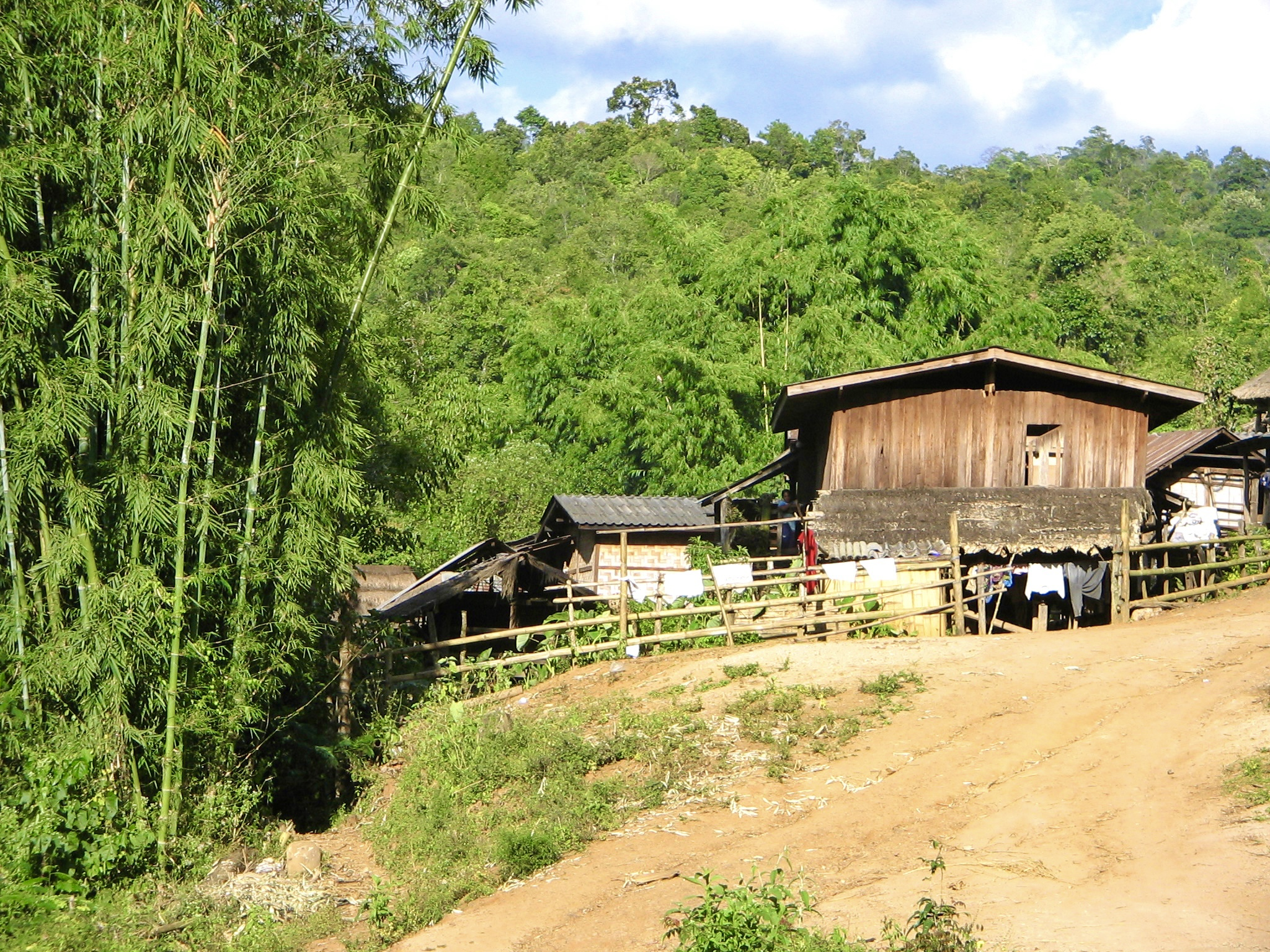 Village of the Karen hilltribe in northern Thailand. I took the picture myself.